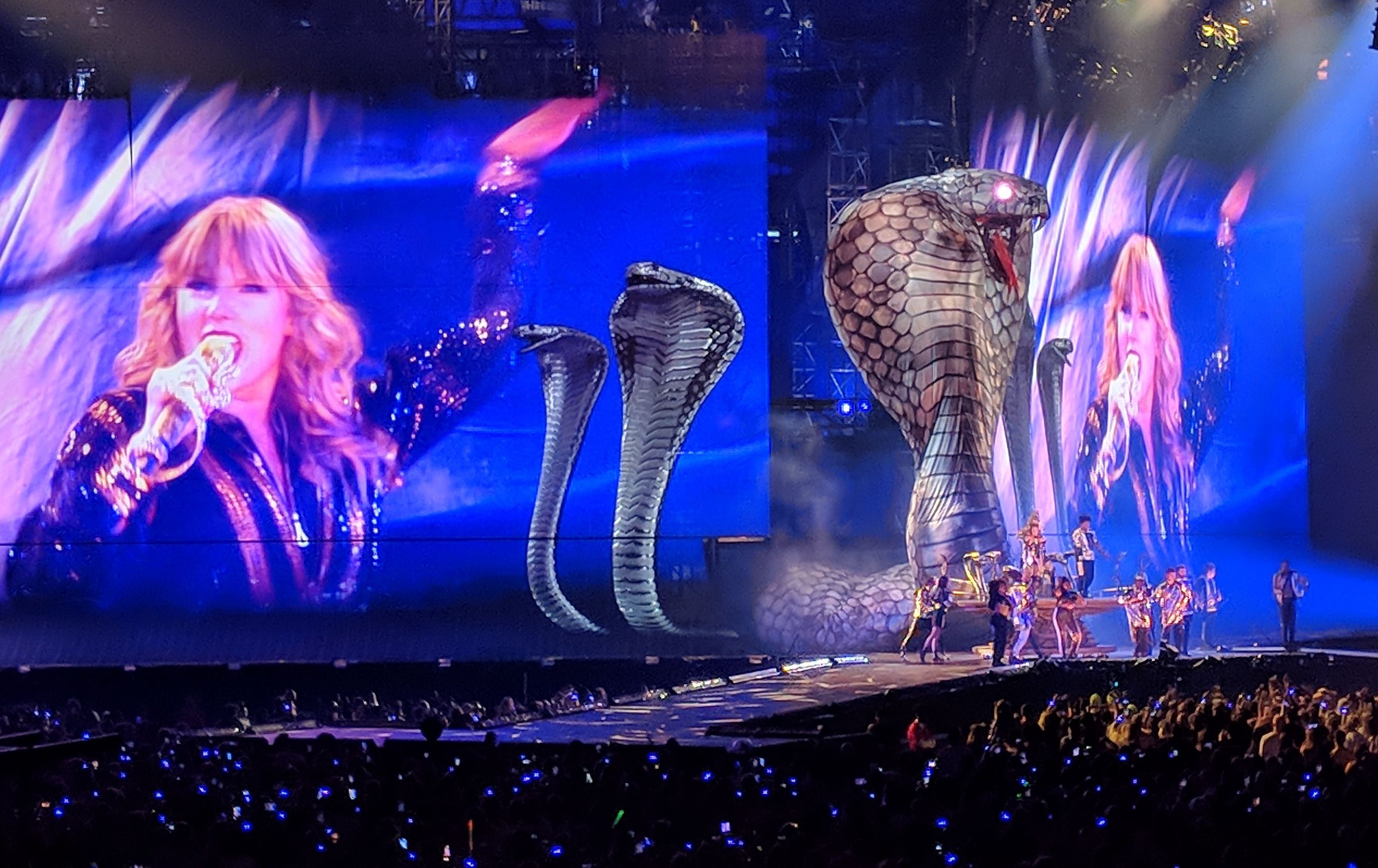 The first appearance of giant snakes during the concert